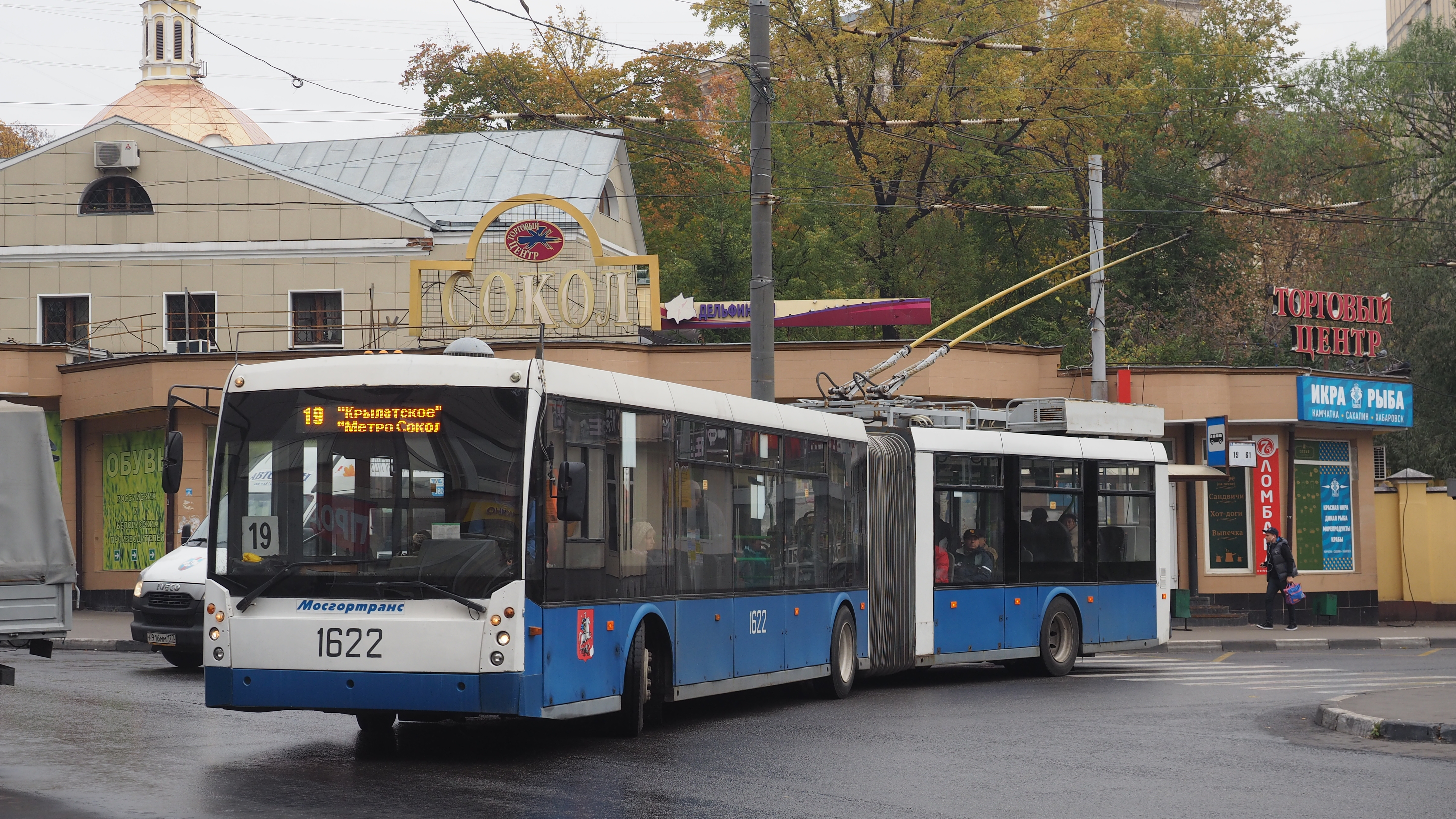 Moscow trolleybus